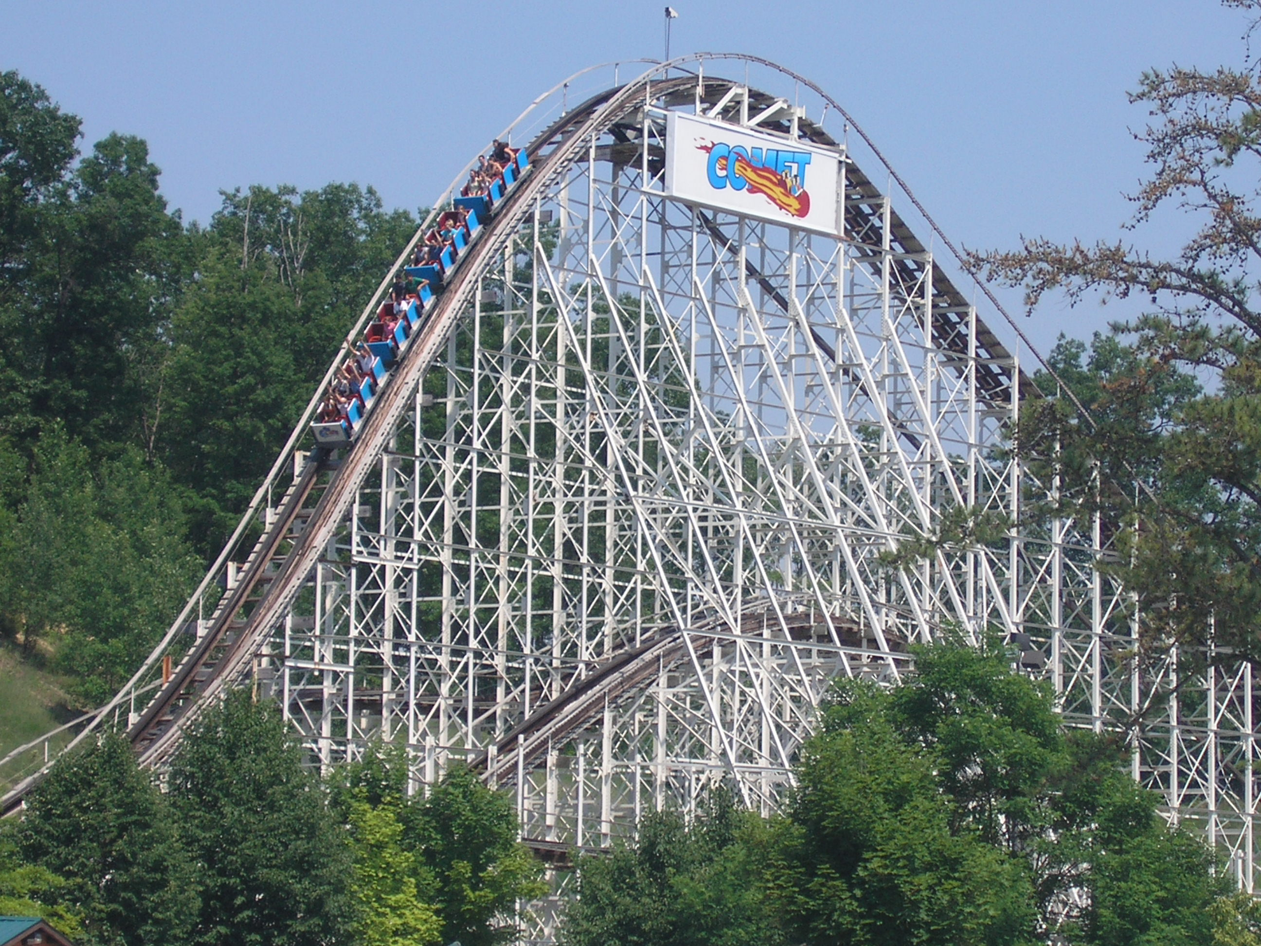 Picture taken by myself on 061806